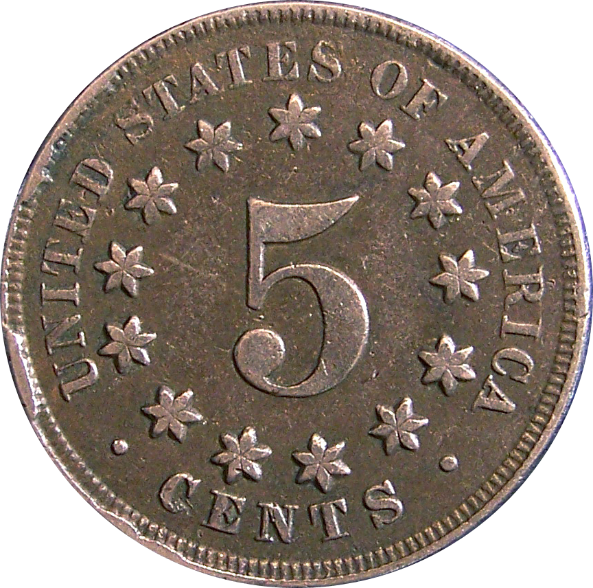 Shield nickel without rays reverse.